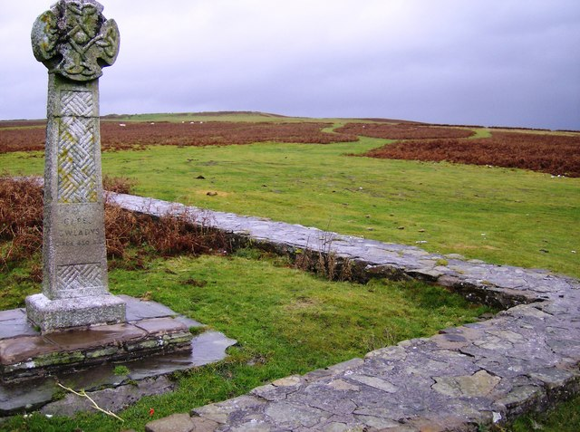 Capel Gwladys memorial. On Gelligaer and Merthyr Common is this memorial in the form of a Celtic cross. The inscription simply says "Capel Gwladys circa 430 AD". A close up appears here 625560. The memorial stands on the site of Capel Gwladys, an early Christian incursion into the area. There is no evidence of a settlement, though that does not deny its existence. Gwladys was the mother of St. Cadoc and Tydfil the Martyr (Merthyr Tydfil). Beyond is a typical part of the common.